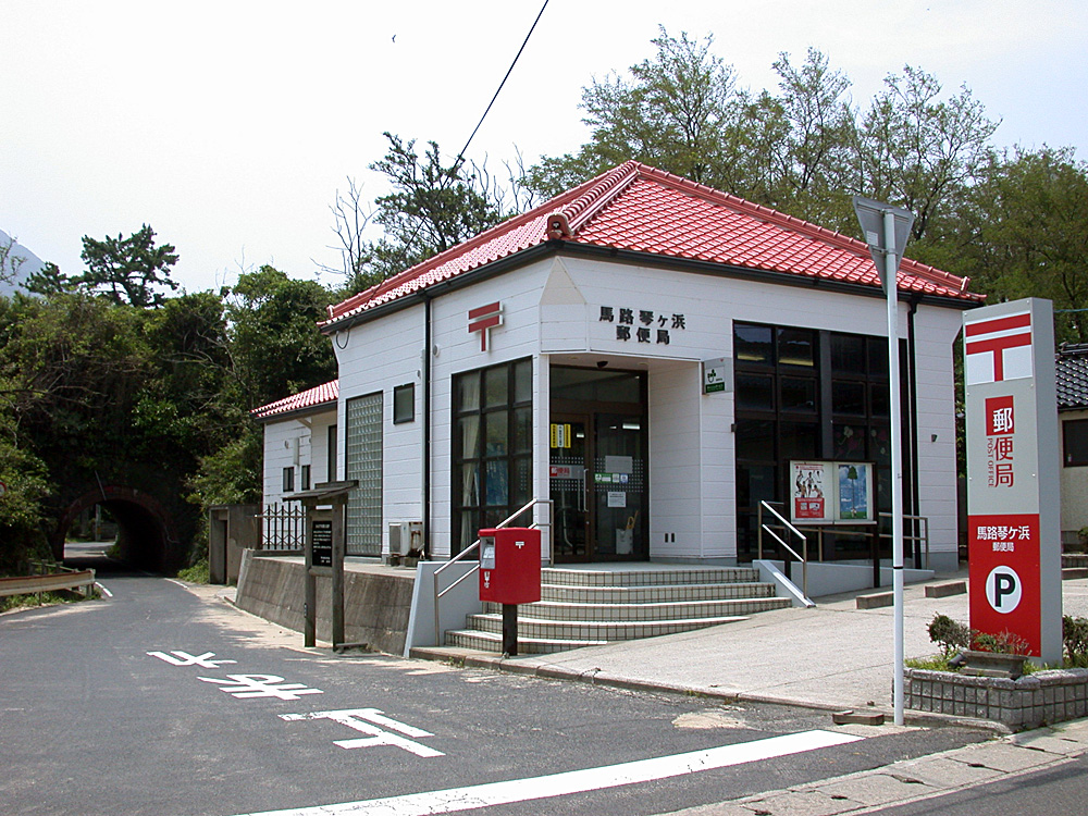 A post office of Majimachi, Nimacho, Ooda-shi, Shimane It is used the place name and a name of the beach, and the name says "Maji KOTOGAHAMA" post office.